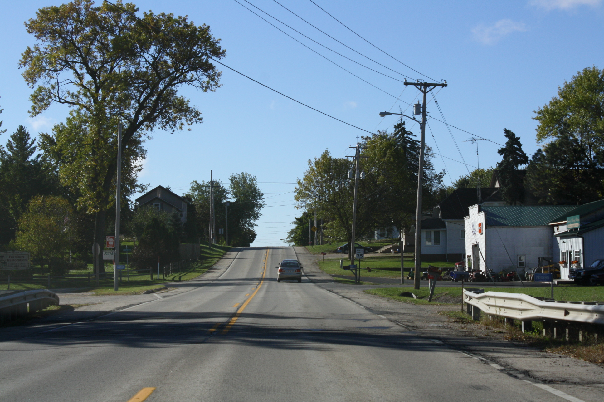 Looking south in downtown Burnett (community), Wisconsin on Wisconsin Highway 26.